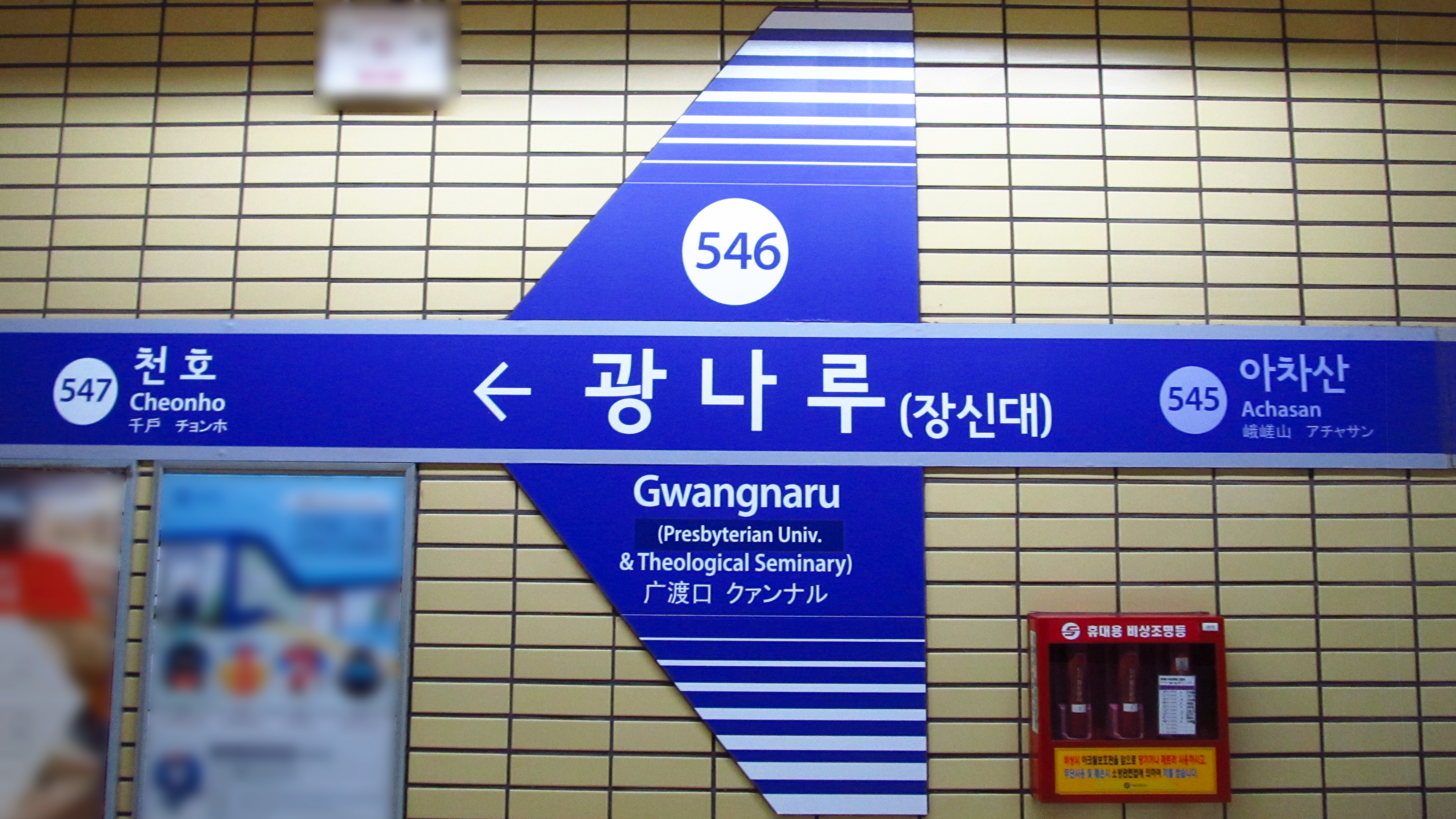 A sign of Gwangnaru Station on Seoul Subway Line 5